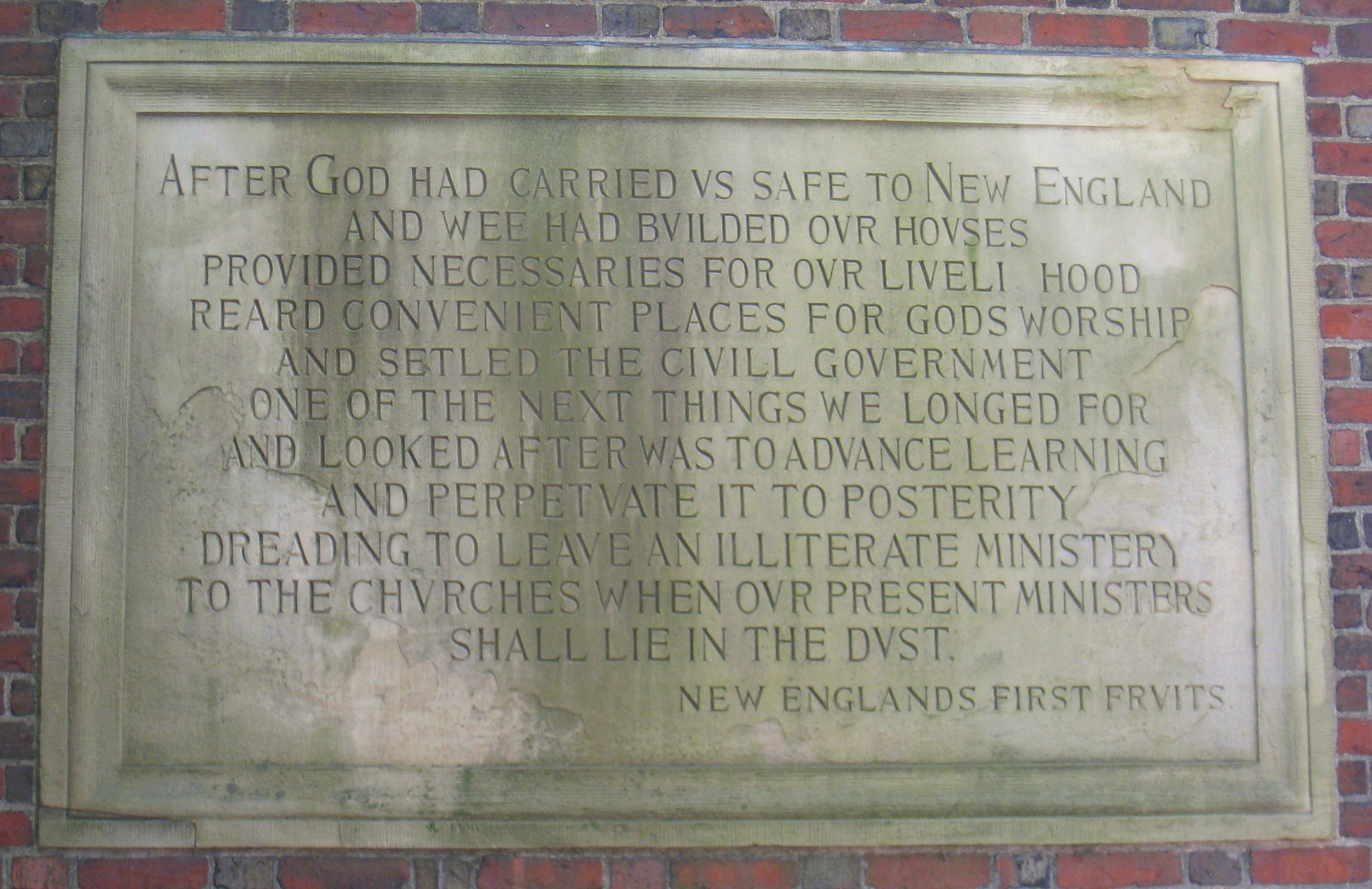 New England's First Fruits plaque, Harvard University, Cambridge, Massachusetts, USA.